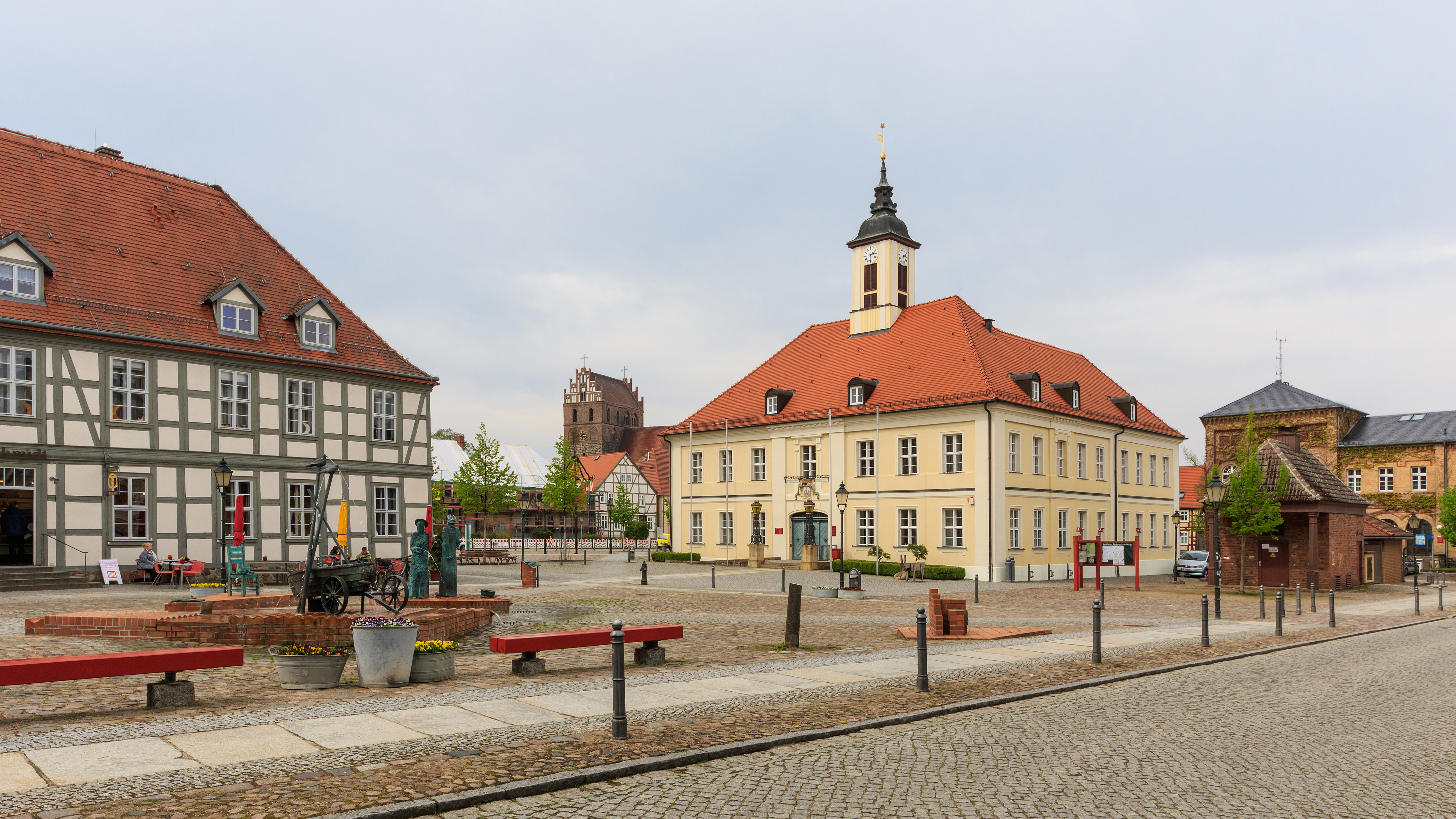 Market square with town hall in Angermünde (Brandenburg/Germany)